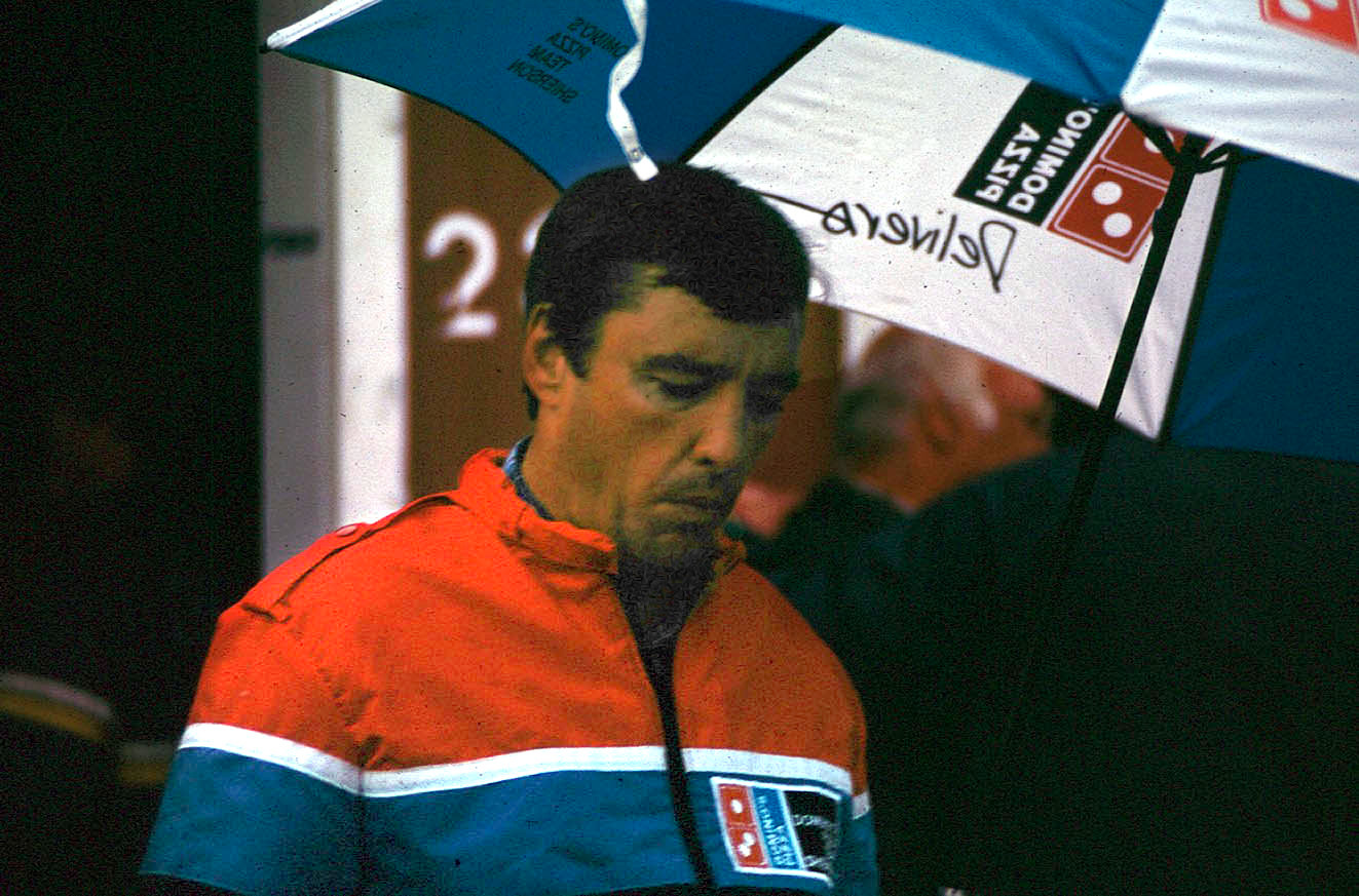 Photos by Ted Van Pelt with Creative Commons License.